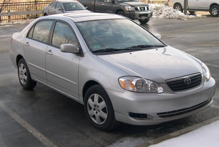 Toyota Corolla (ZZE120) sedan, photographed in the United States.